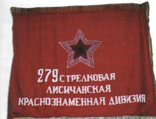 Battle flag of the 279th Rifle Division (2nd formation). Inscription reads '279th Rifle Lysychansk Red Banner Division.'